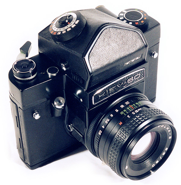 Kiev 60 is a russian medium format camera. This photograph pictures an upgraded model, with a black leather outfit (instead of the regular gray chrome). Picture took by myself. --Jaubouin 12:30, 6 August 2006 (UTC)